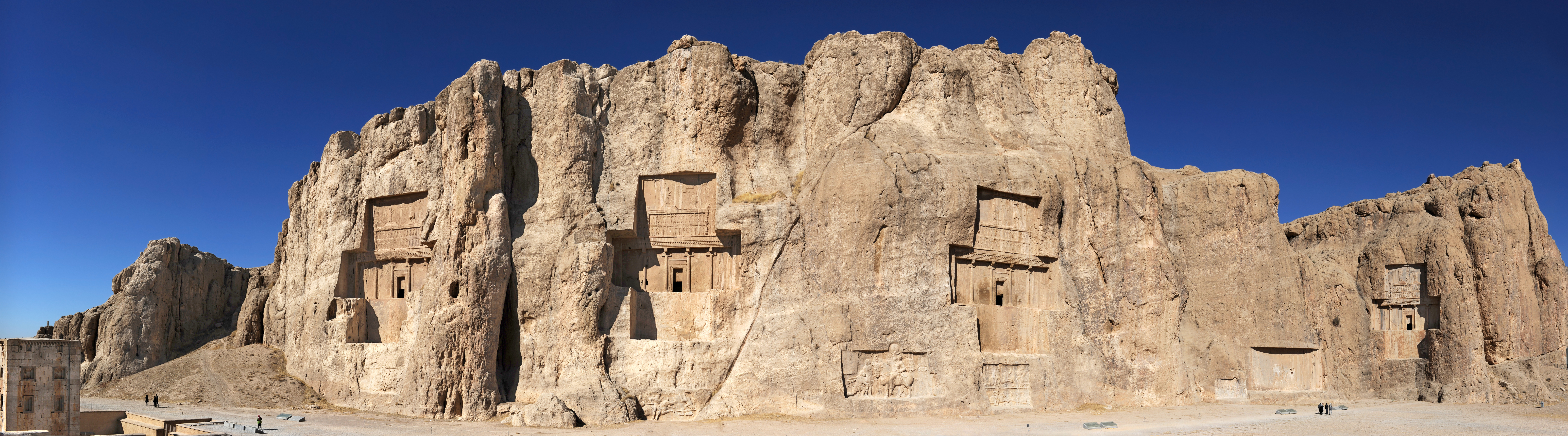 Panorama of Naqsh-e Rostam, Shiraz, Iran.